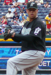 Picture I took of Justin Miller on 6-5-07 22:03, 7 June 2007 . . Chrisjnelson . . 176×259 (105,271 bytes)